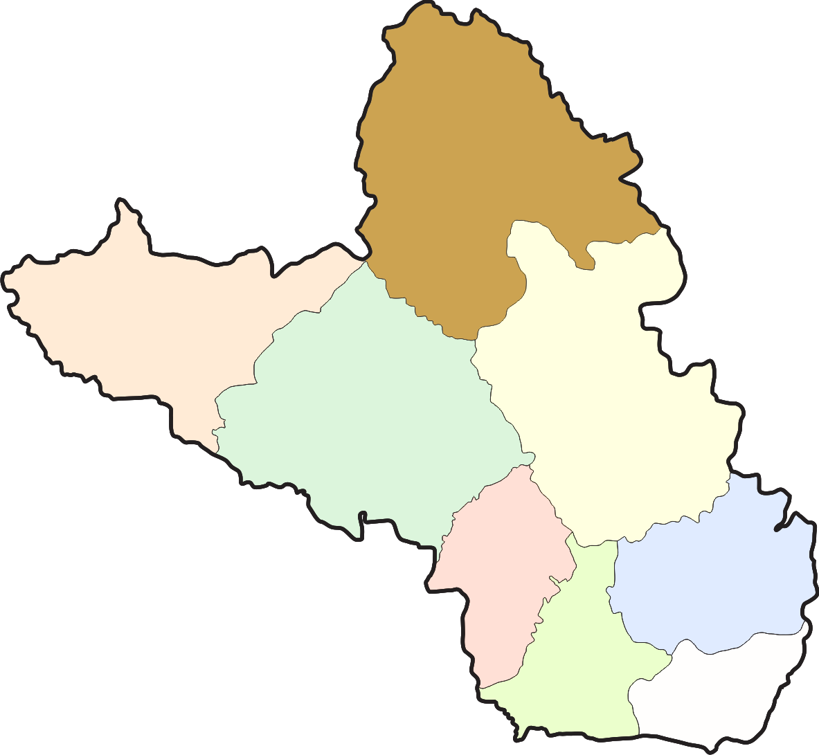 Planned Gyergyó Seat